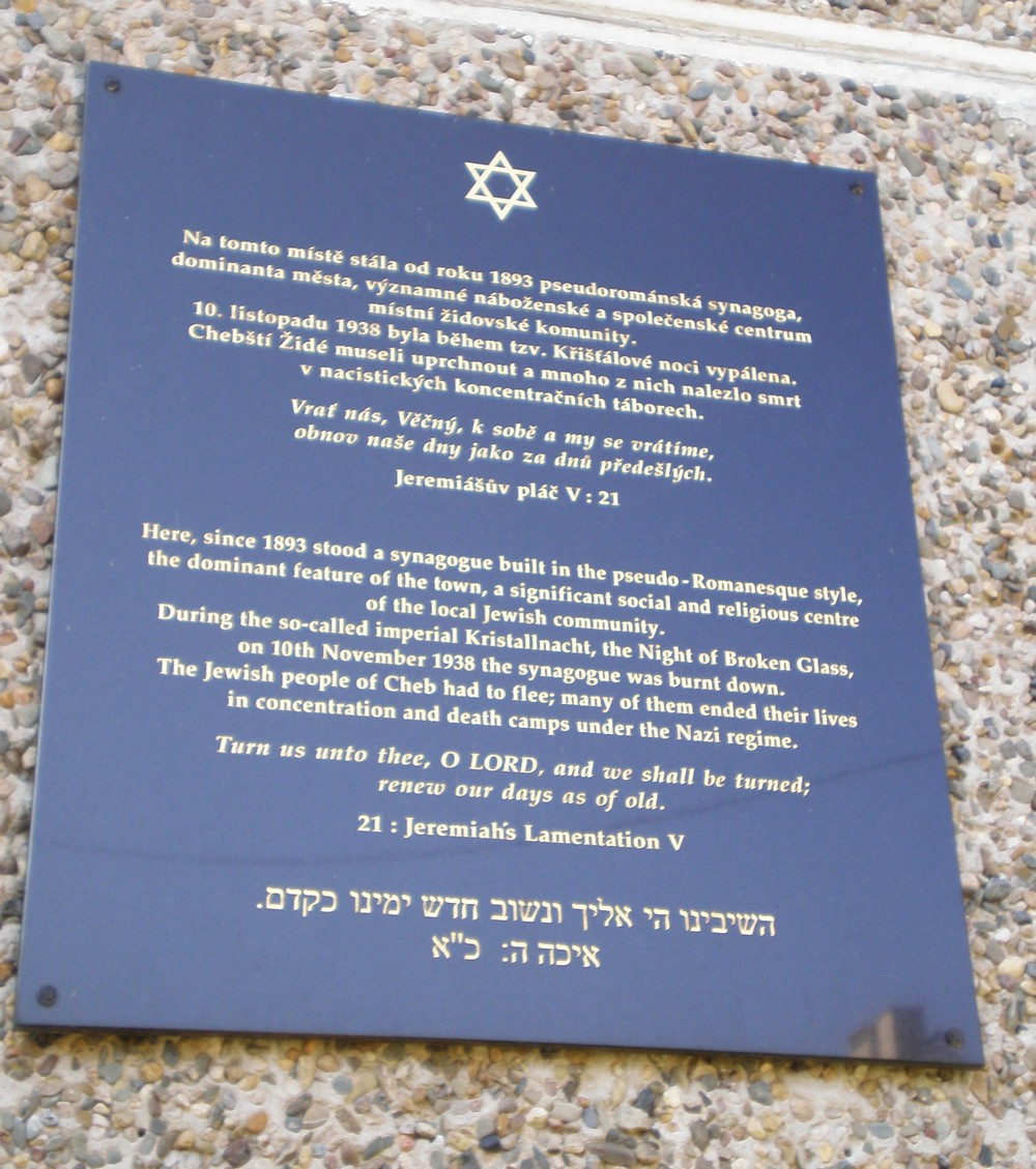 Cheb synagogue Memorial desk (from 2004)